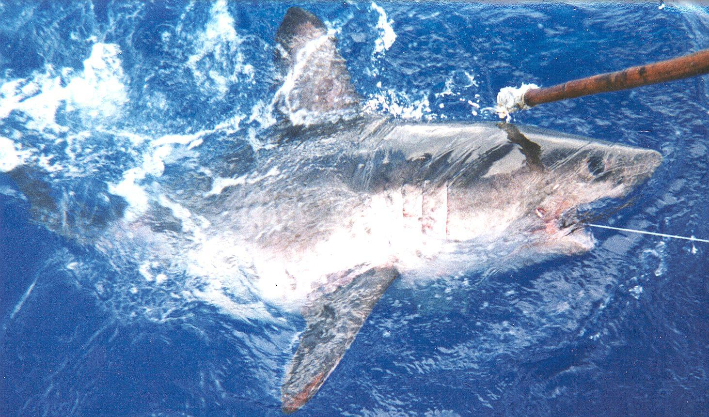 Salmon shark (Lamna ditropis)